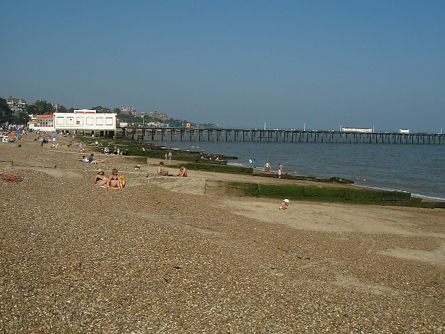 Beach at Felixstowe. Looking towards the pier at low water